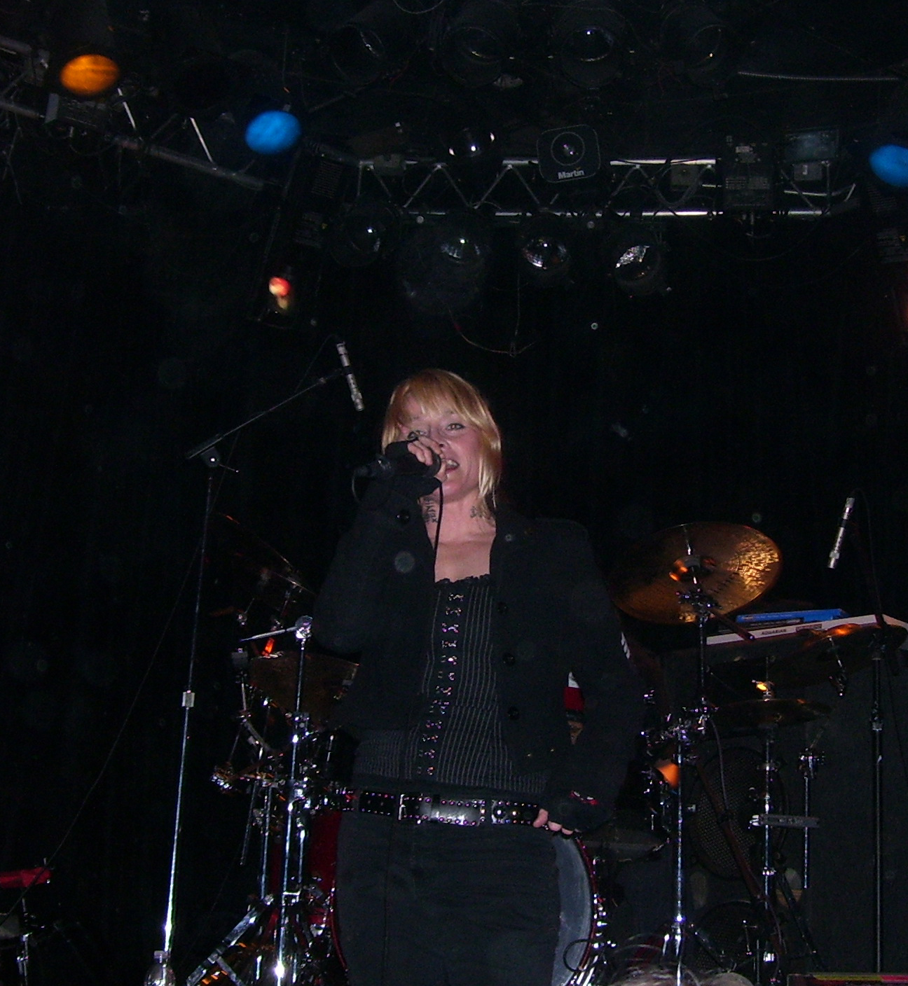 I am the author of this photograph.